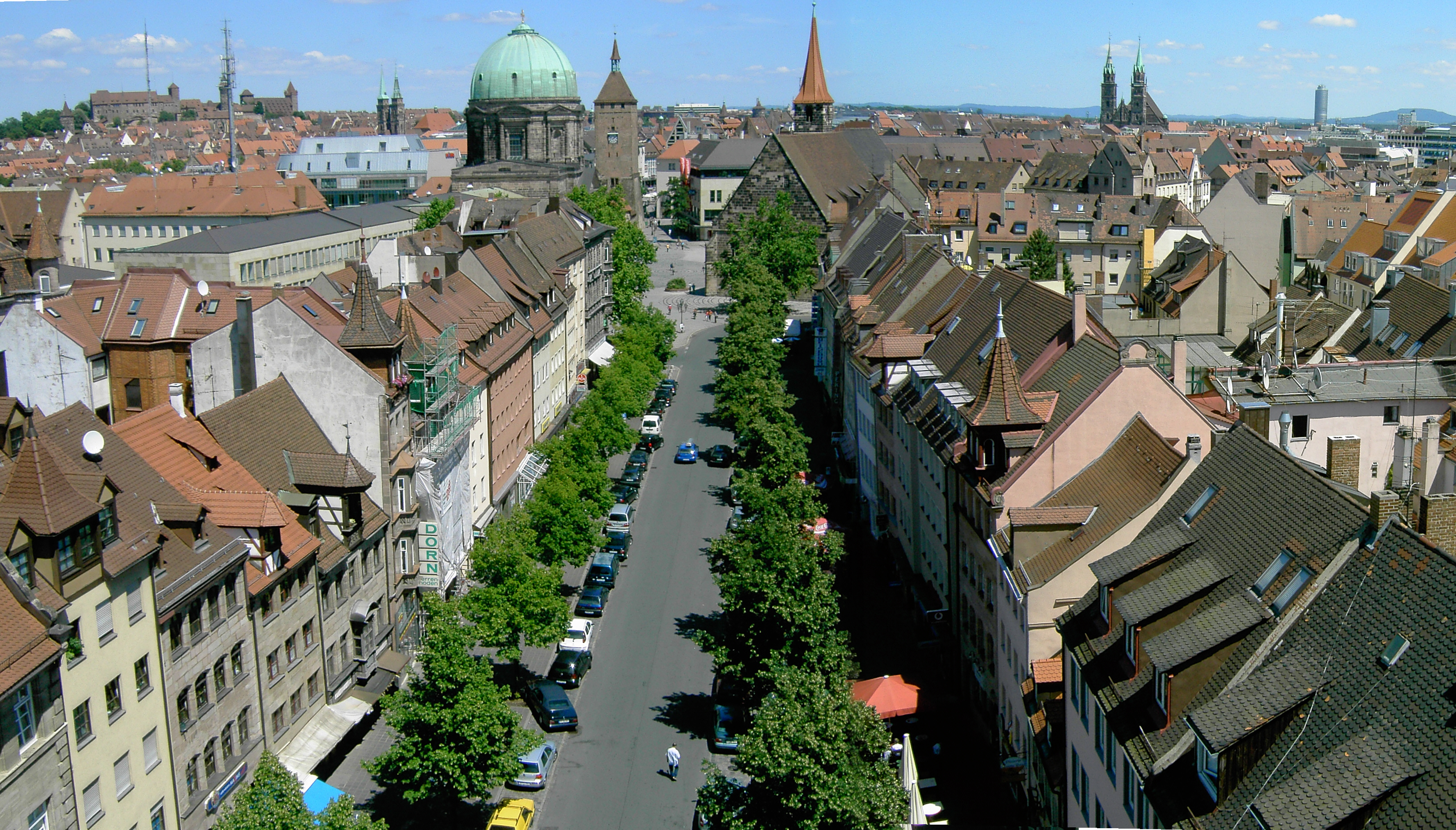 Old town of Nuremberg, view from Spittlertor-Tower, from Left to right - Castle (Kaiserburg), St. Sebald Church, Elisabeth-Church (Rundkuppel), White Tower (Weisser Turm), right site of Ludwigstraße - Jakobschurch, St. Lorenz Church and Businesstower "Nürnberger Versicherung".